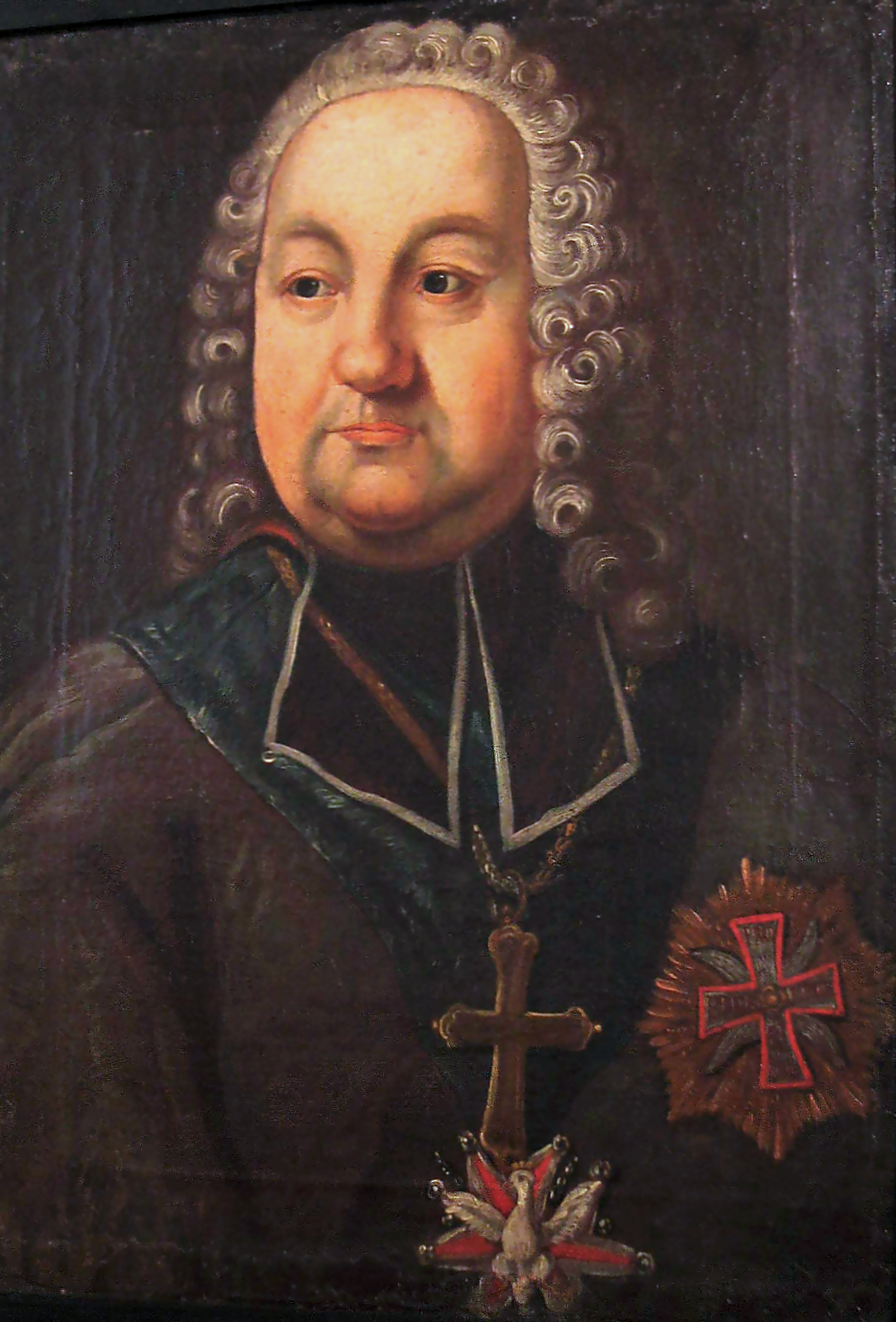 Portrait of Kajetan Sołtyk (1715-1788), bishop of Kraków